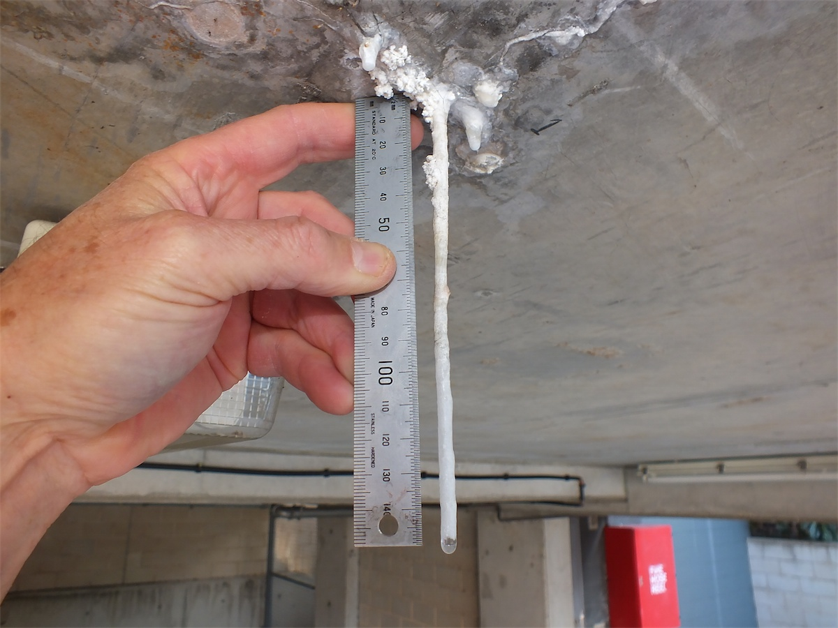 Calthemite straw stalactite growing in an undercover concrete car-park. Consisting of calcium carbonate (CaCO3), this stalactite is a secondary deposit derived from concrete.